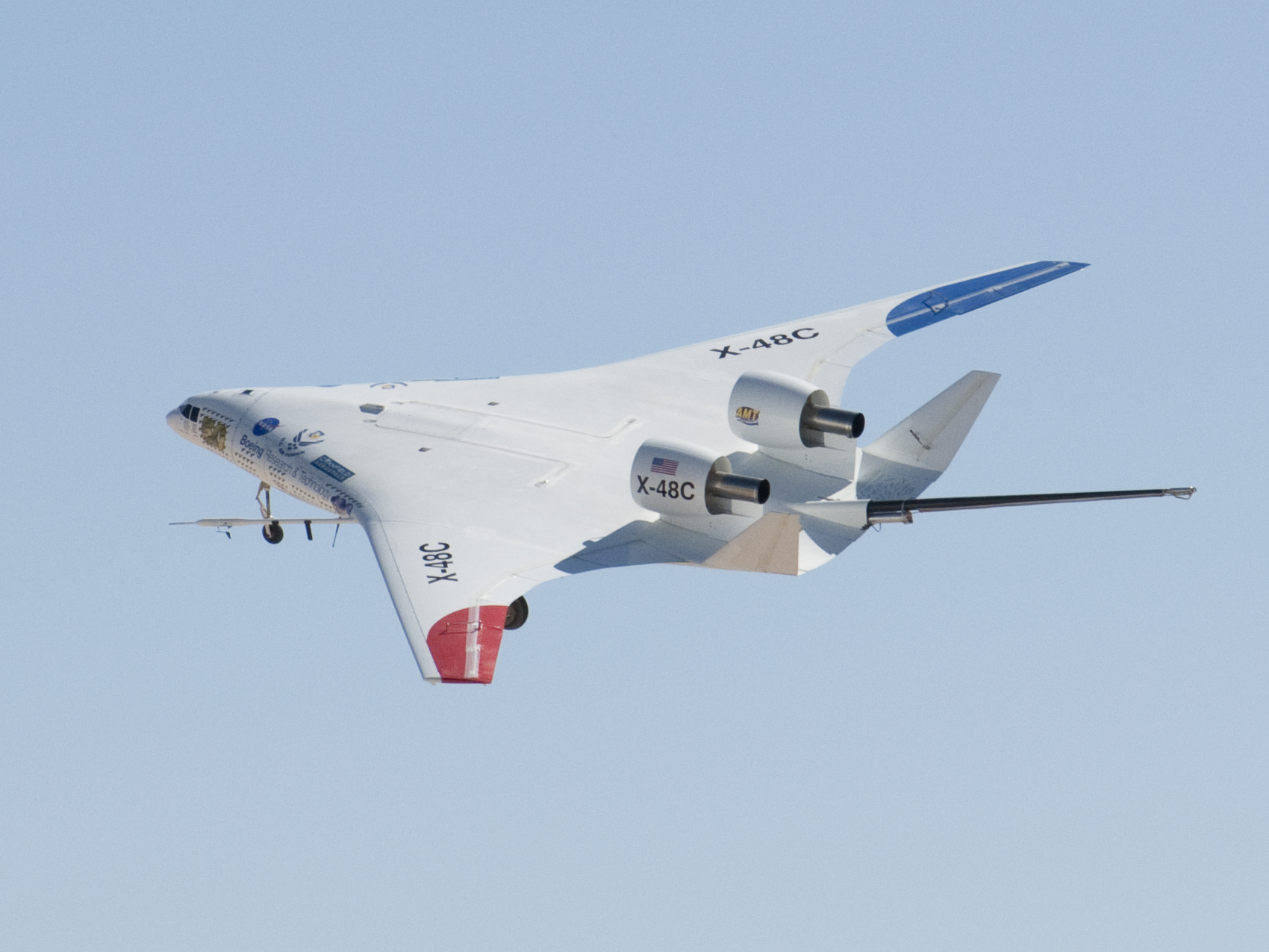 The NASA-Boeing X-48C Hybrid/Blended Wing Body research aircraft banks left during one of its final test flights over Edwards Air Force Base from NASA's Dryden Flight Research Center on Feb. 28, 2013. The long boom protruding from between the tails is part of the aircraft's parachute-deployment flight termination system.